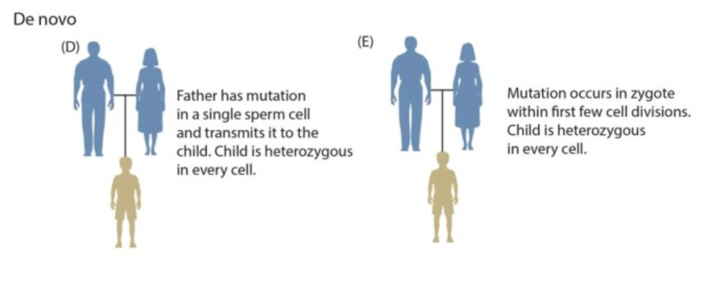 Decipits the two possible ways a de novo mutation can occur. Shows how an individual (green) can acquire a mutation when both parents do not have the mutation